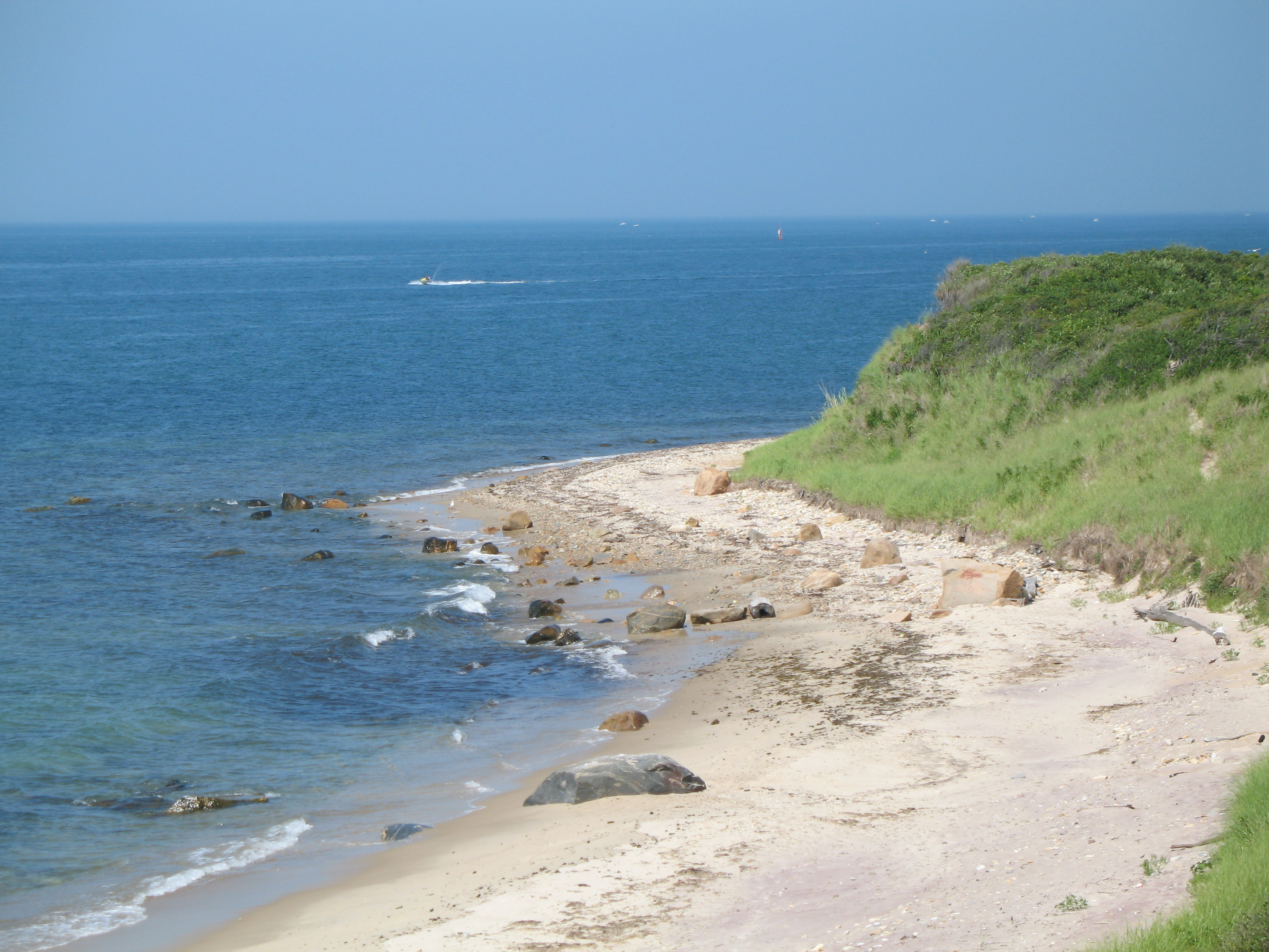 Photo of Culloden Point by Montauk taken by poster from parking lot at the top of the bluff in July 2006. The large rock with the red on its side is the landmark for scuba divers who follow a heading of 333 degrees from it reach the wreck of the HMS Culloden.